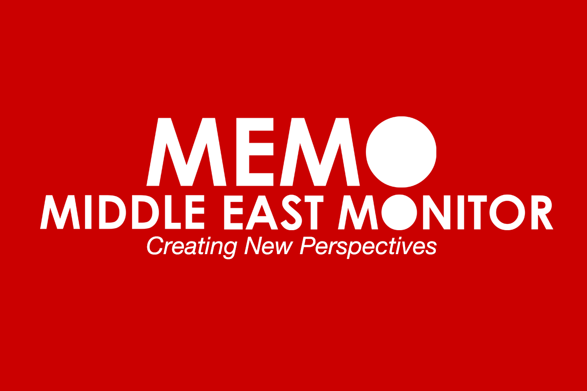 Middle East Monitor Logo